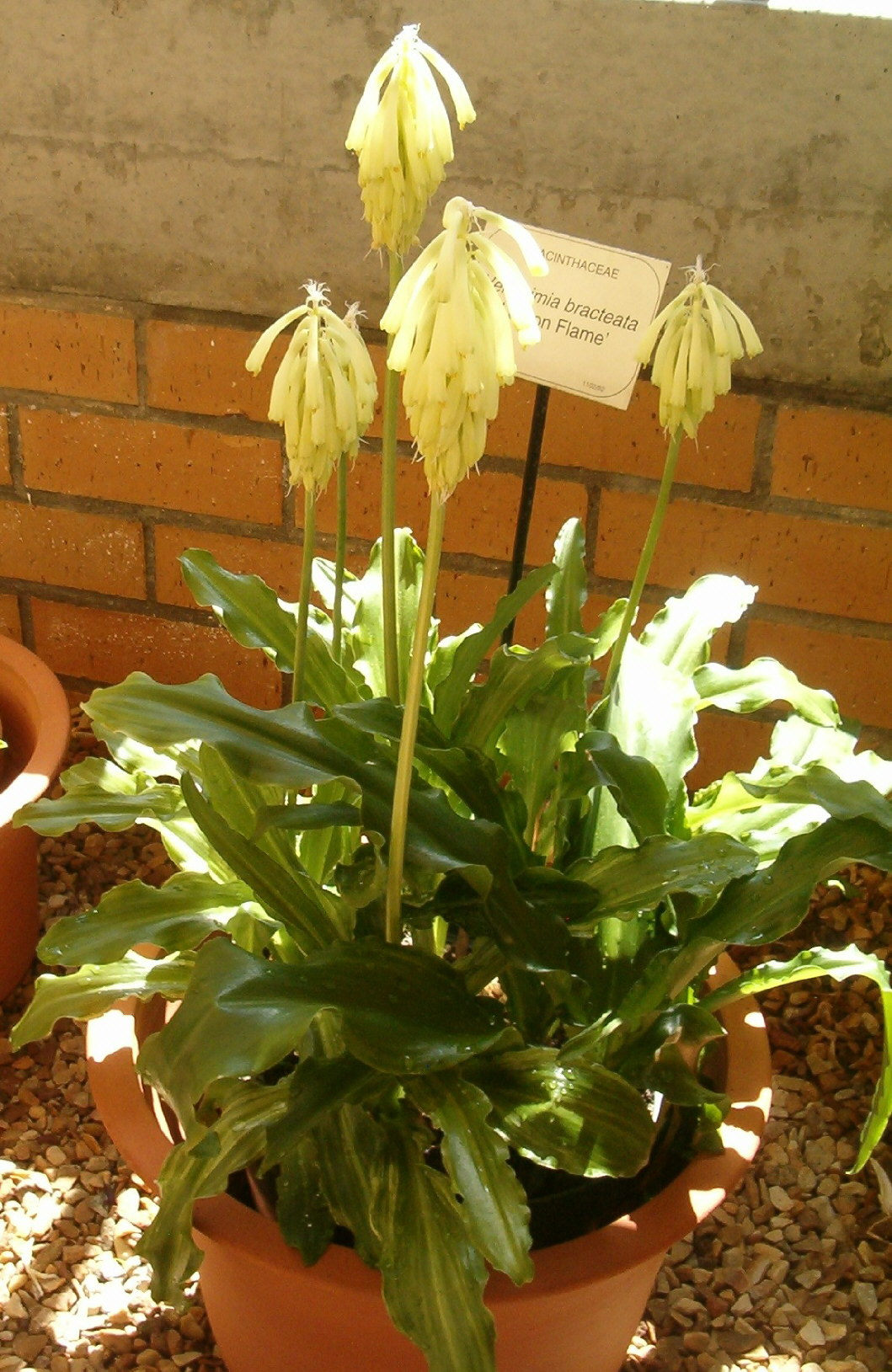 At Kirstenbosch National Botanical Gardens Species Veltheimia braceata Cultivar 'Lemon Flame'